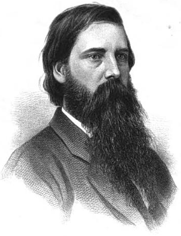 Portrait of publisher William Lee (of Lee & Shepard, Boston)